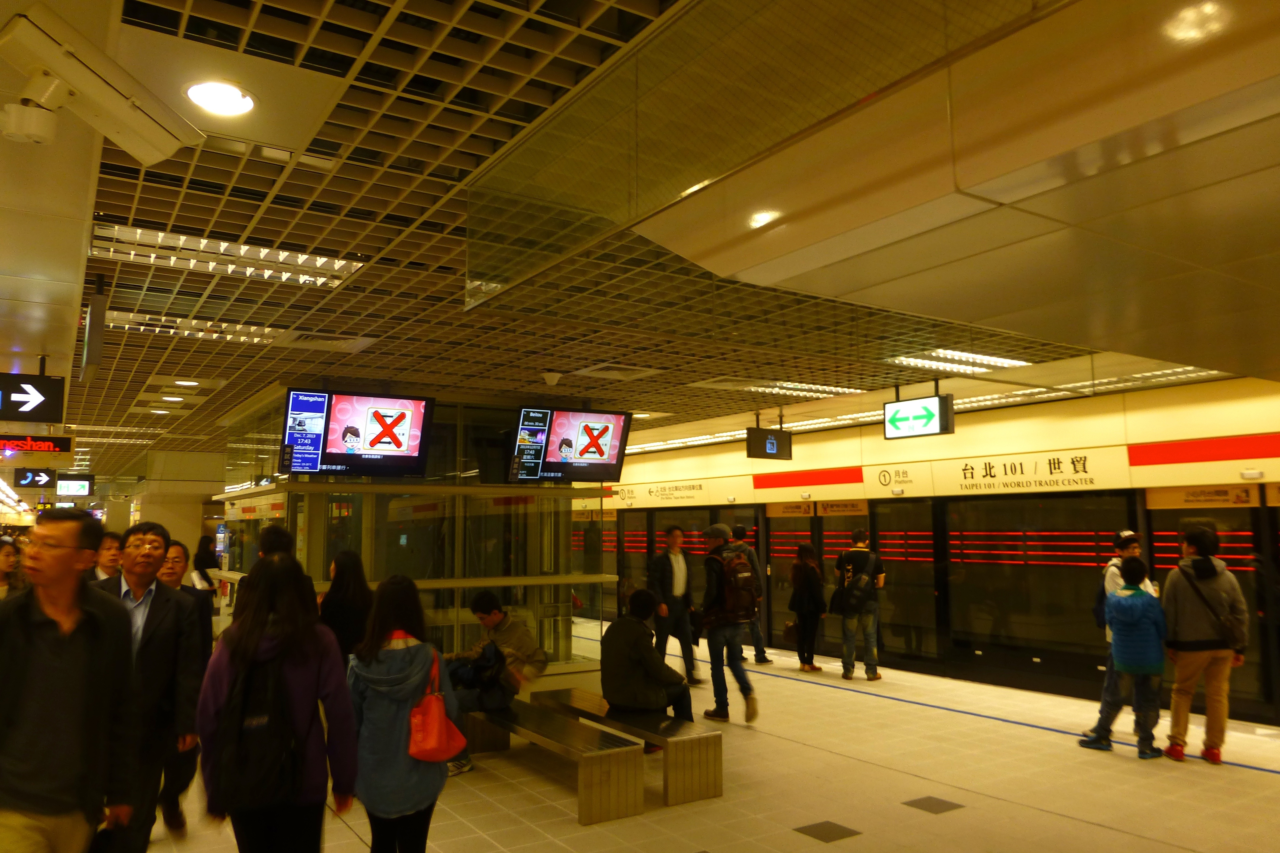 The Taipei Metro Taipei 101/World Trade Center Station is located in the Xinyi District in Taipei, Taiwan. It is a station on the Xinyi Line and began revenue service on November 24, 2013. This is the station platform.